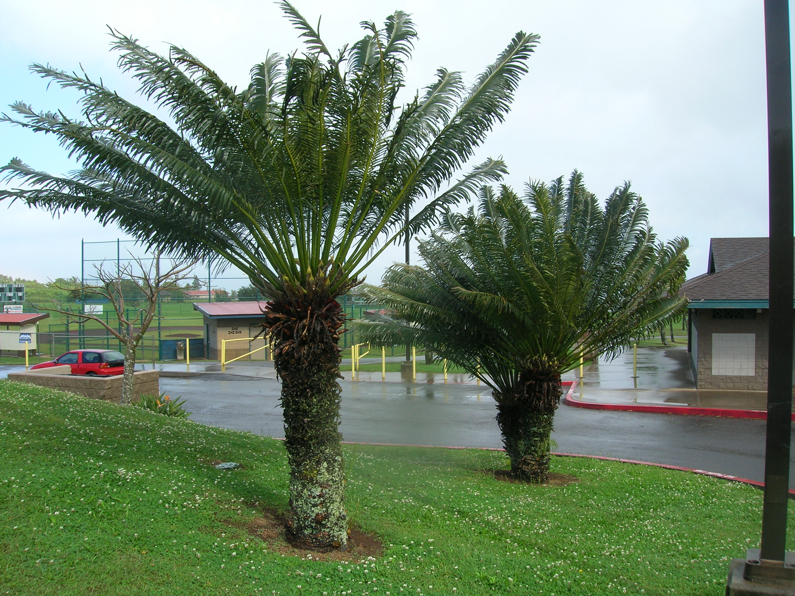 Cycas circinalis (habit). Location: Maui, Eddie Tam Makawao